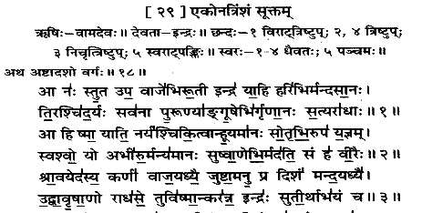 Poem from hi:en:Rigveda